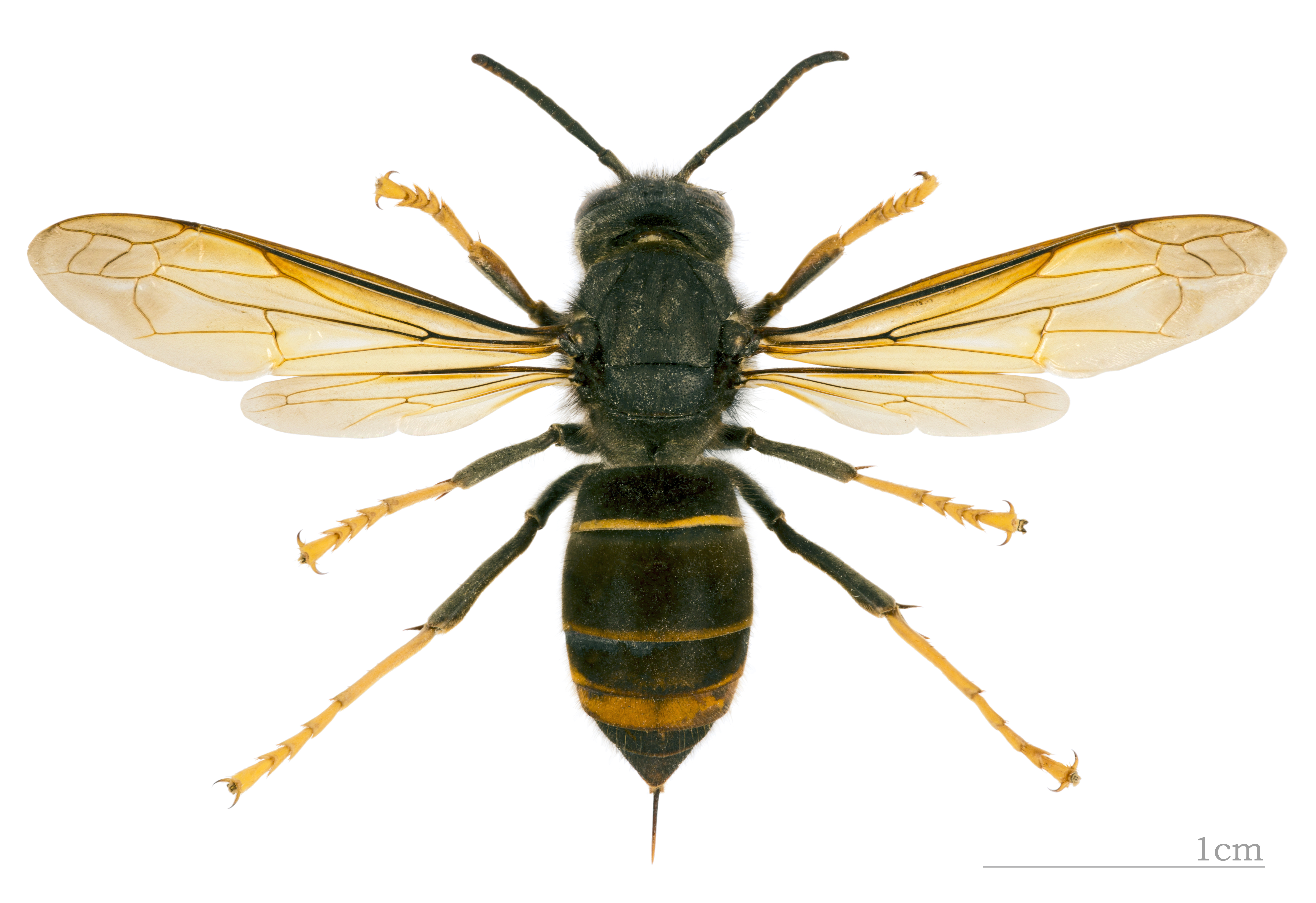 Vespa velutina nigrithorax - Dorsal side